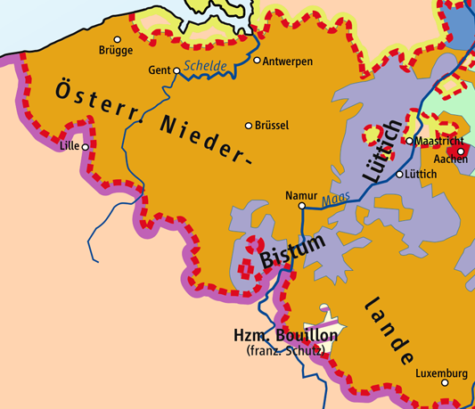 The Austrian Netherlands in 1789, with the ecclesiastical Principality of Liège, cropped Version of Image:HRR 1789.png